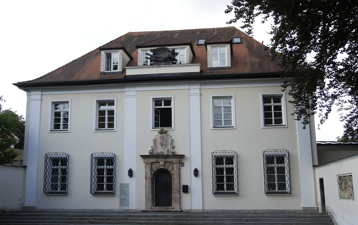 Murenhof München Solln